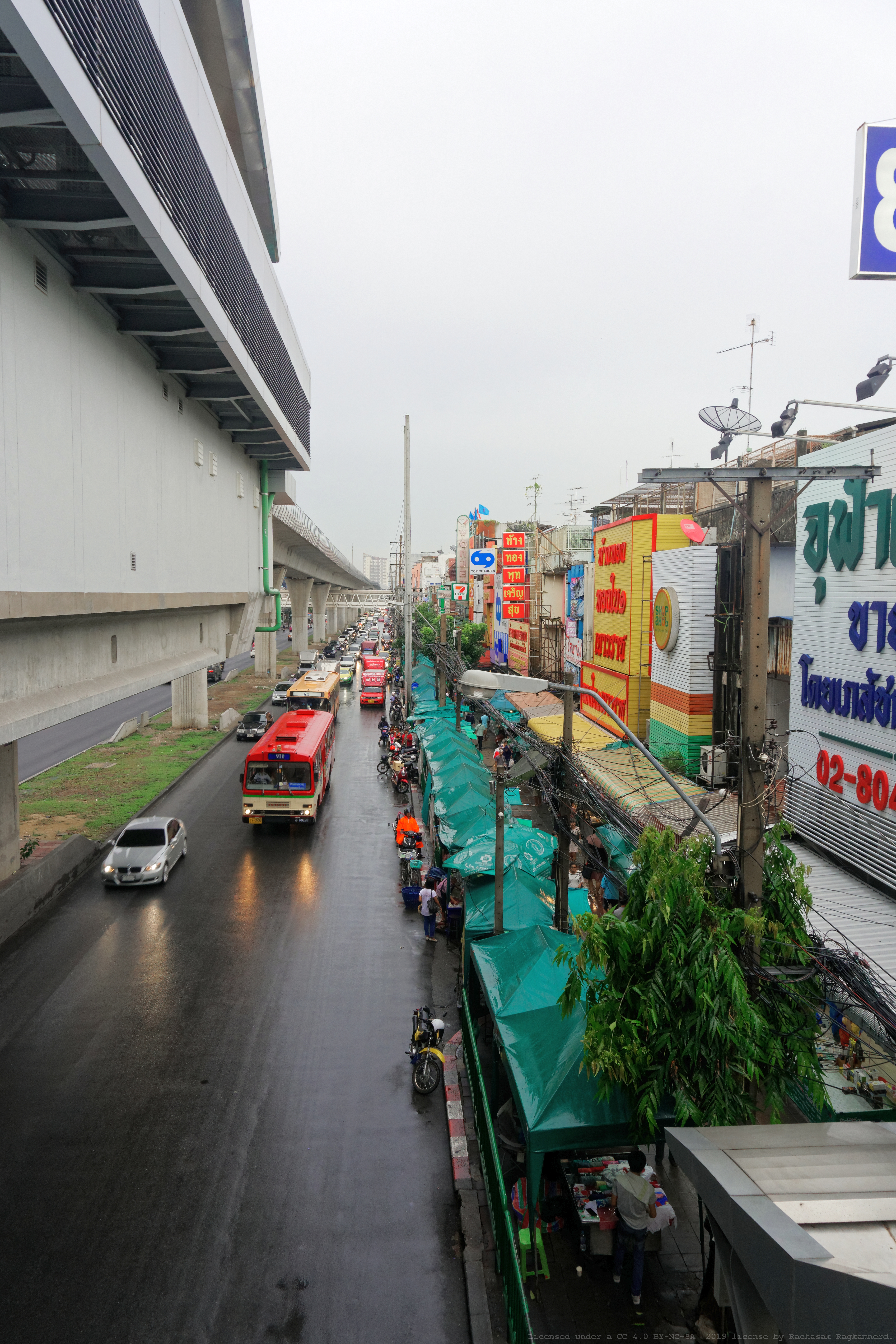 MRT Bangkae station: Phetkasem road. You can see, on the right, the market on the pedestrian path.